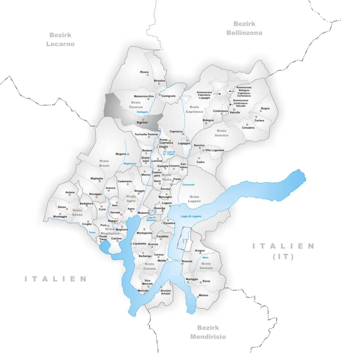 Municipality Sigirino